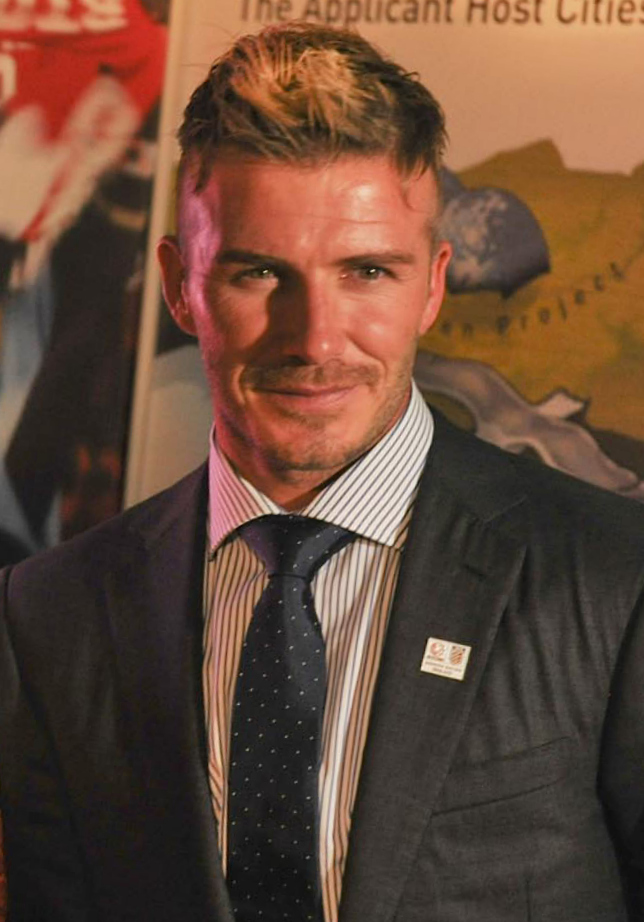 Cup final with David Beckham in 2009.